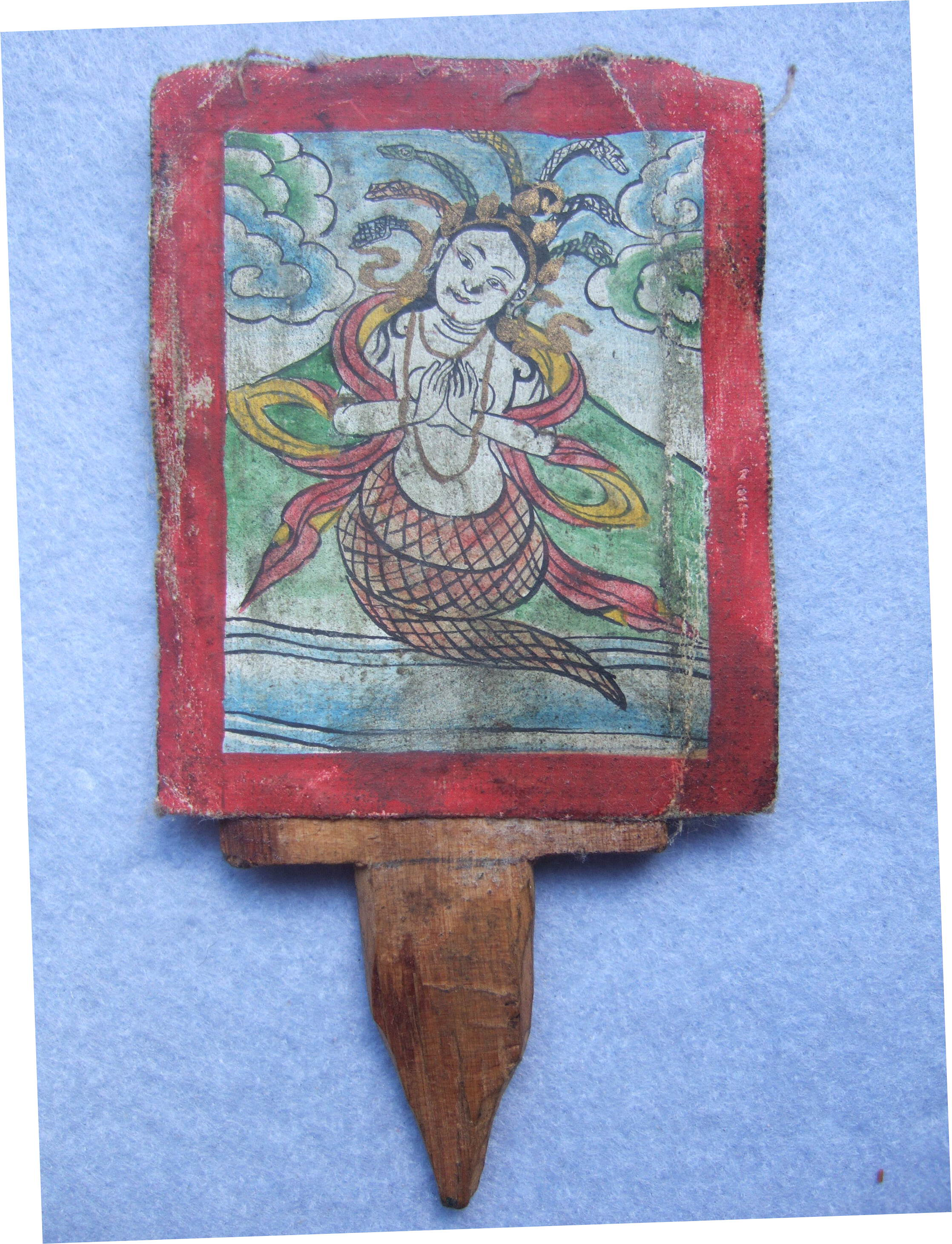 Tibetan ritual painting (tsakli), mid 20th century.